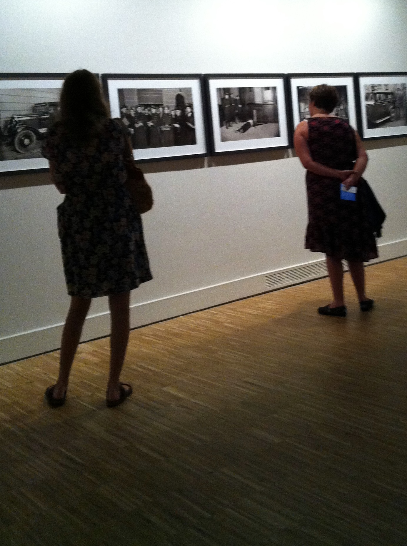 Brangulí Barcelona 1909-1945, exhibition about Josep Brangulí at CCCB in Barcelona during 2011